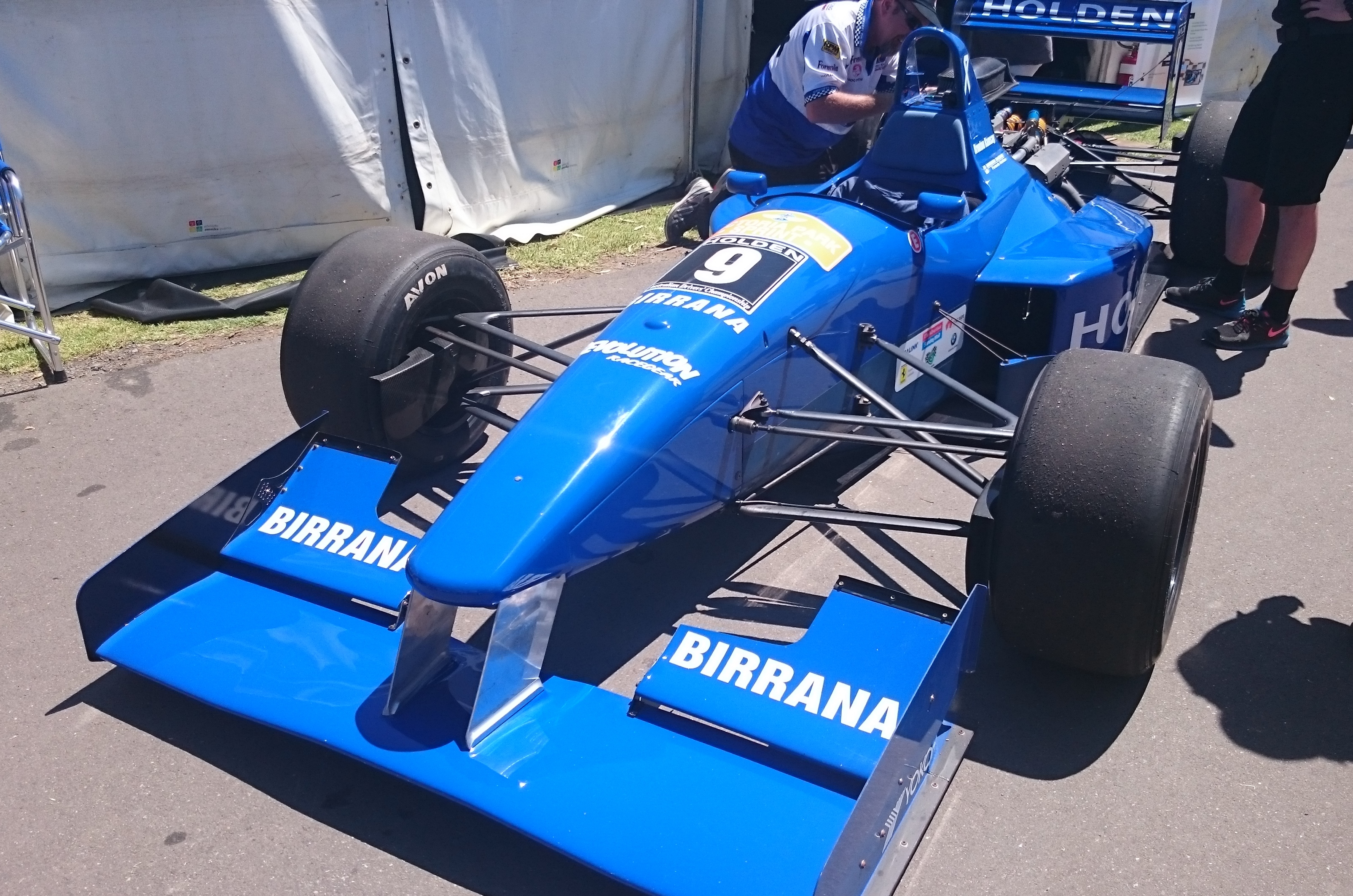 Reynard 94D of Brenton Ramsay at the 2015 Adelaide Motorsport Festival